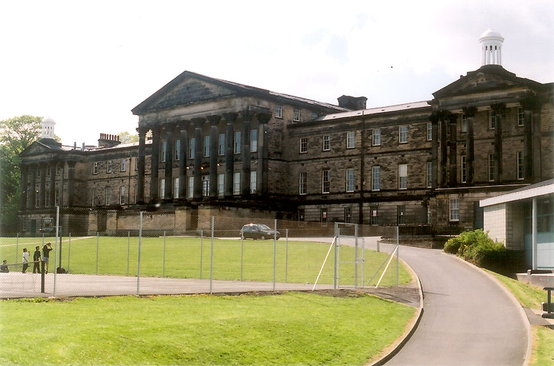 King Edward VII School, Broomhill, Sheffield, South Yorkshire, England Photo' by Wikityke (2005)